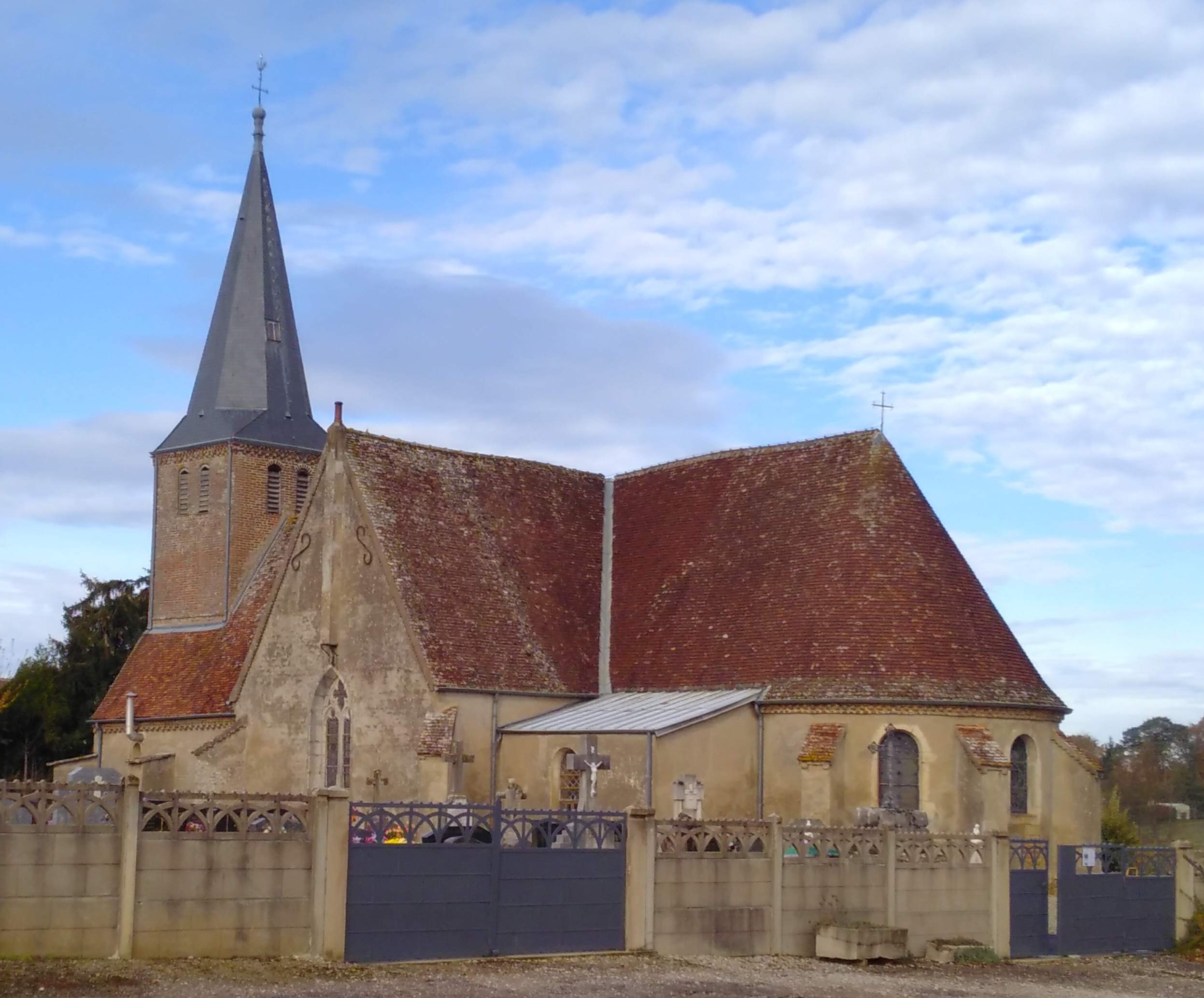 Church of Le Fay (France, Saône et Loire)